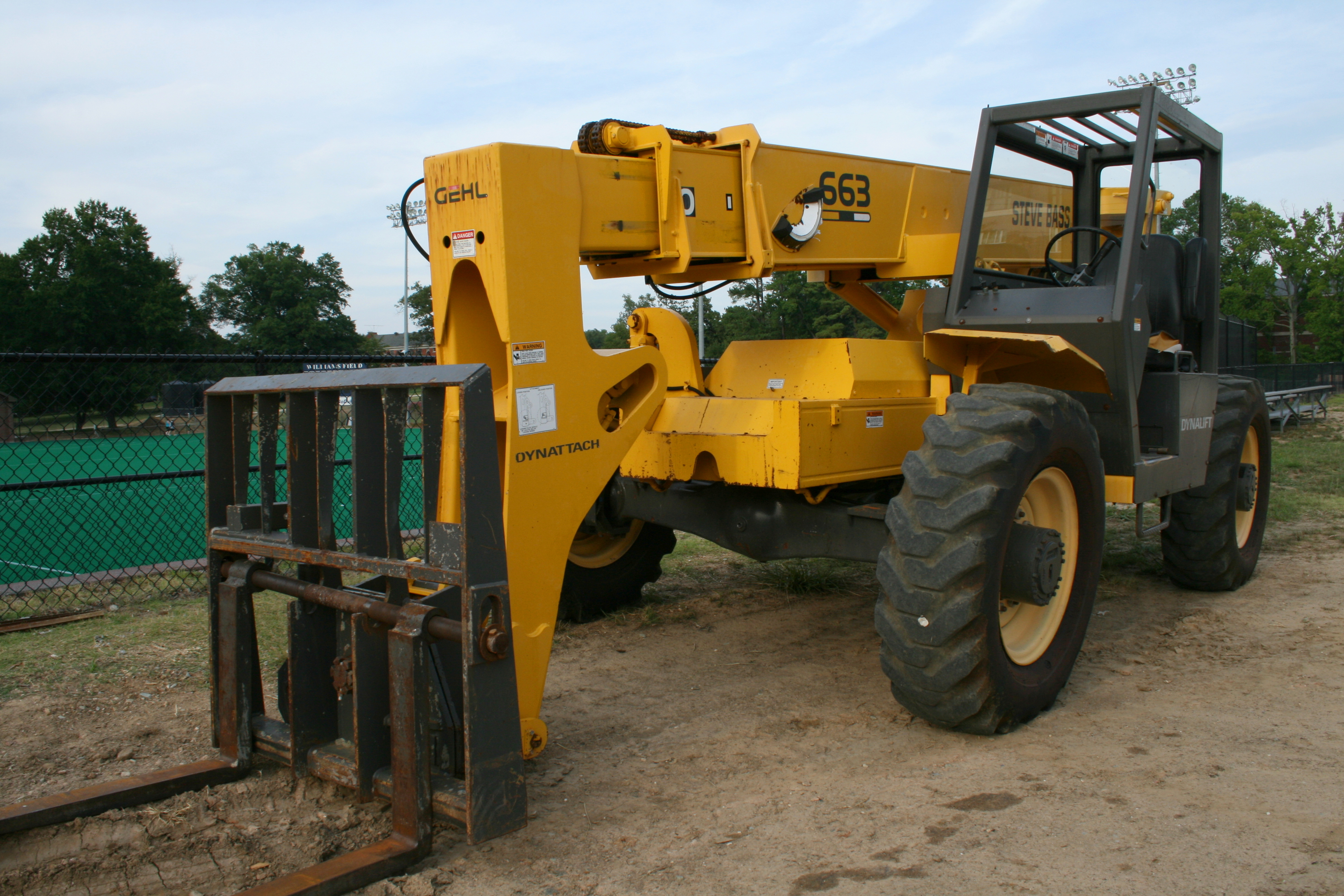 Gehl 663 forklift/telehandler at Duke University in Durham, North Carolina.